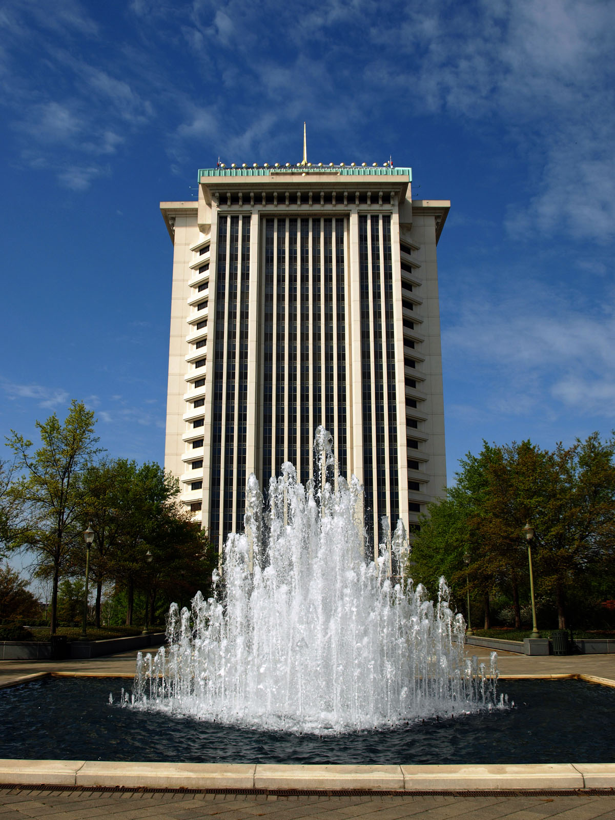 The RSA Tower in Montgomery, Alabama